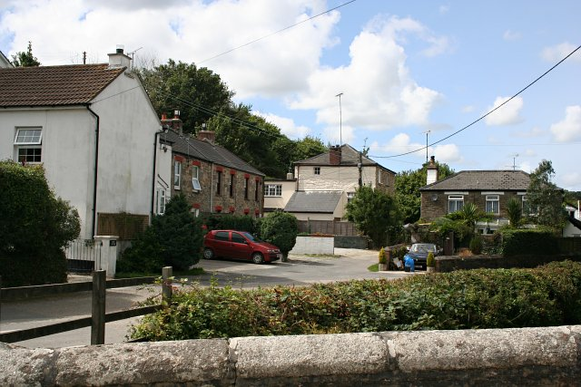 Calenick. Calenick is a hamlet about a mile south of Truro at the head of what was once a navigable creek but which is now silted up. Calenick was the site of early tin smelting works. In 1794 the smelting house here had ten furnaces. The tin powder would have been mixed with coal dust and smelted in small teacup sized pottery crucibles. These 'Calenick Crucibles' were made here in a pottery set up by Henry Rosewarne in the 1770s.